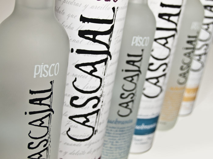 Pisco Cascajal Bottles